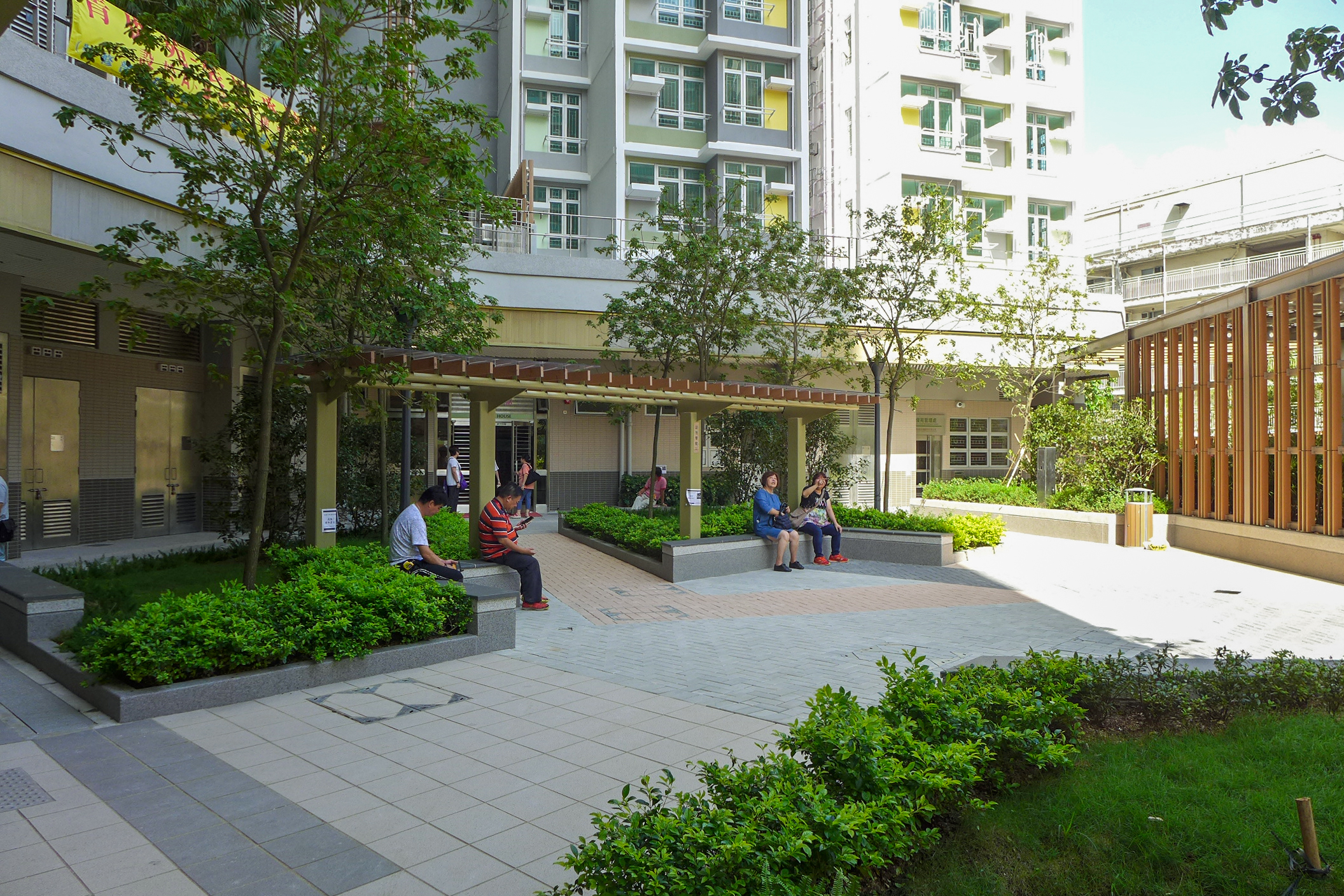 Ching Chun Court